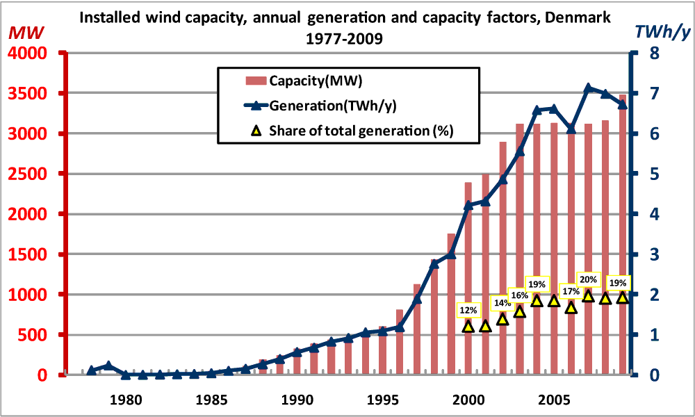 Installed wind capacity, annual generation, and proportion of total generation, in Denmark 1977-2009